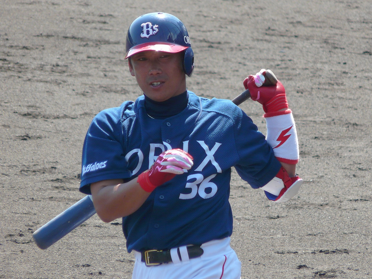 OB-Shinji-Shimoyama20100903